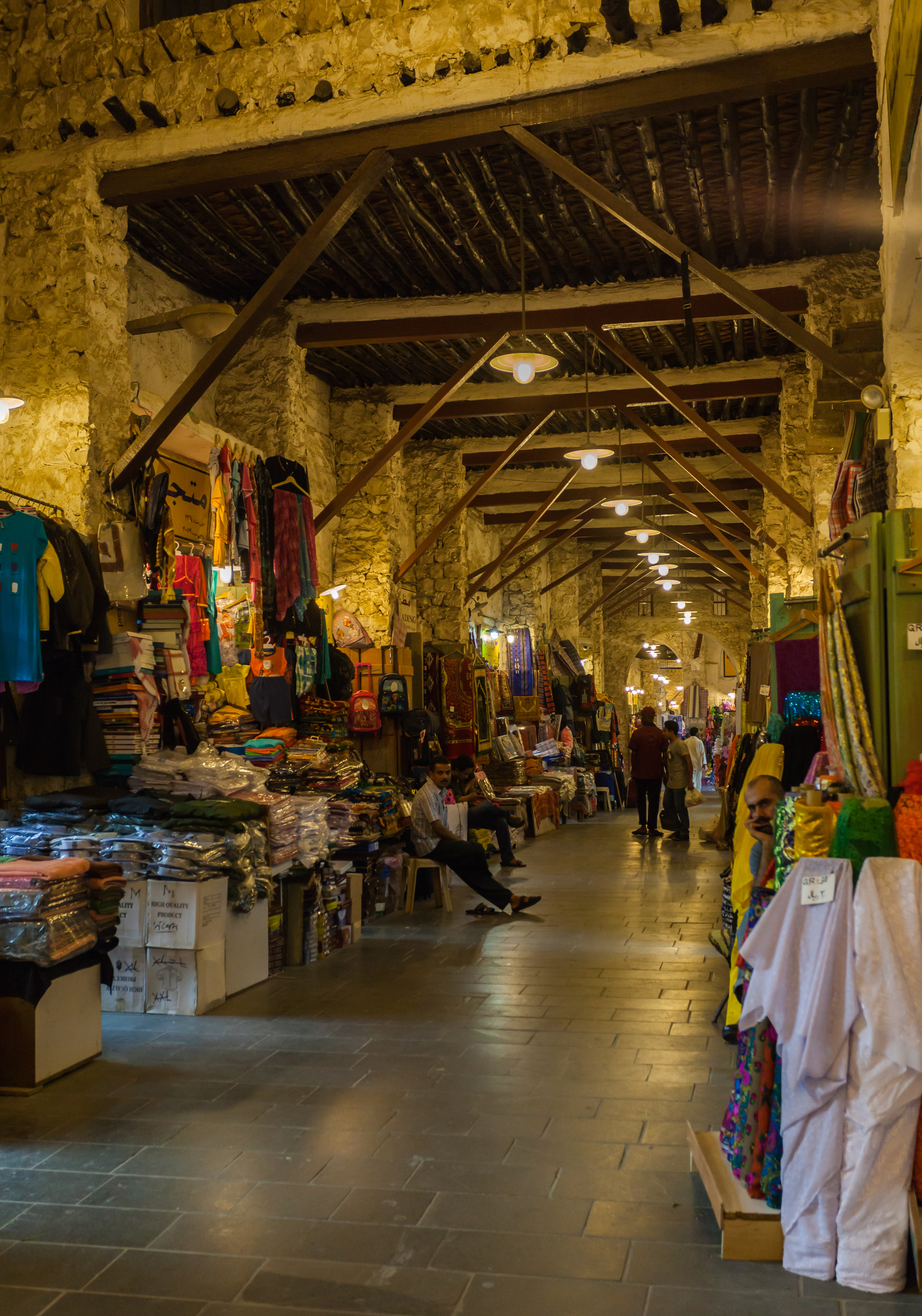 Souq Waqif, Doha, Qatar